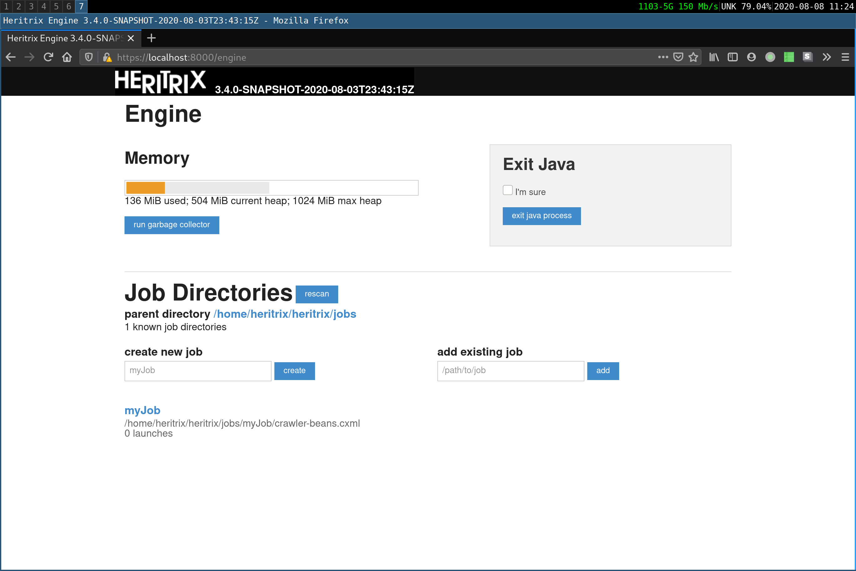 Heritrix 3.4.0-SNAPSHOT-2020-08-03T23:43:15Z Web UI screenshot.